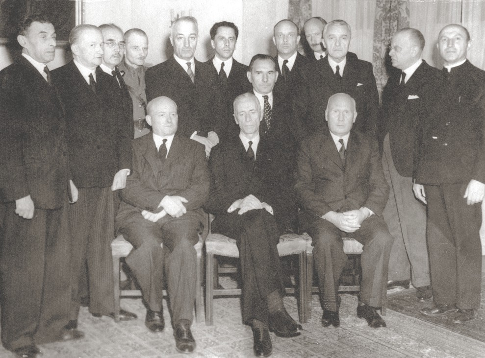 Polish Government in Exile 1944 (till November 1944) (Prime Minister S.Mikołajczyk)